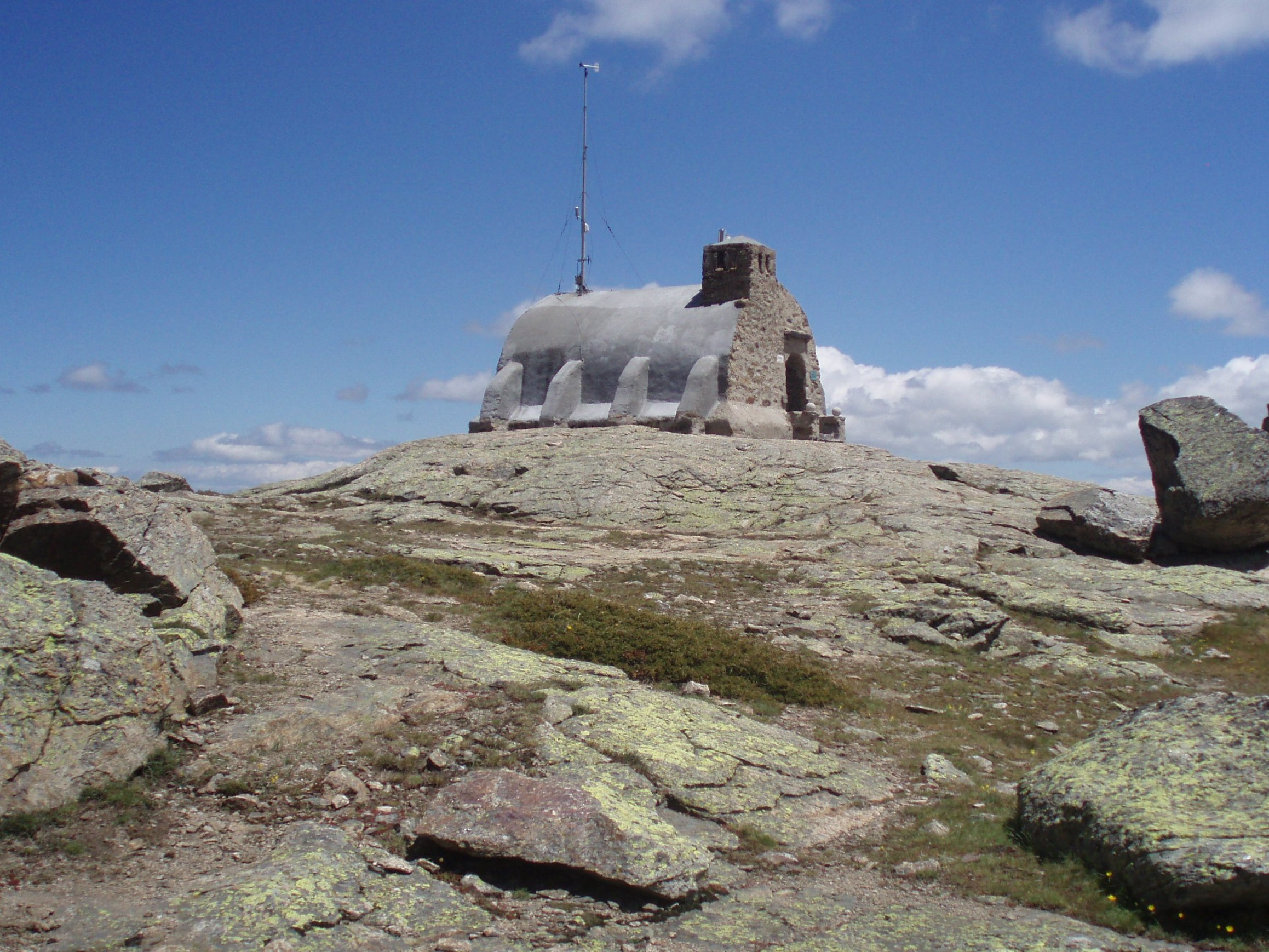 Zabala mountain refuge in the Sierra de Guadarrama (Community of Madrid, Spain).